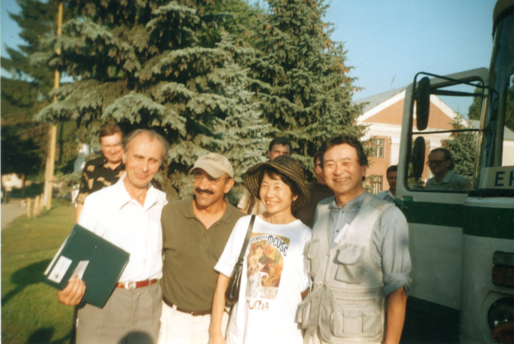 Buniakovsky conference 16-24 aug. 2004, Kyiv, Vinnytsa, Bar. Yoltukhovsky Mykola (left), visitors from USA and Japan.